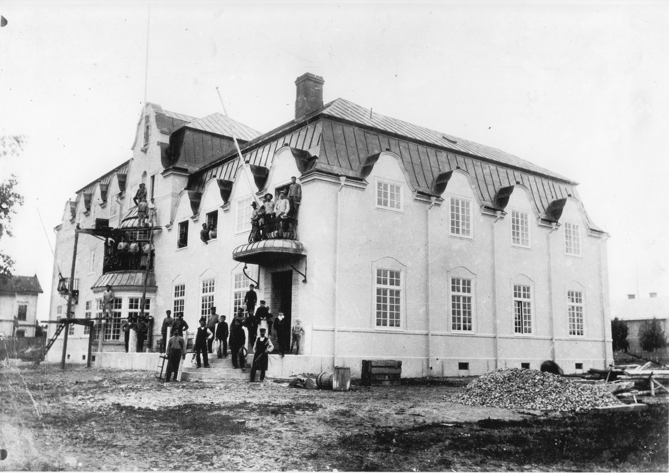 The Scharinska villa under construction